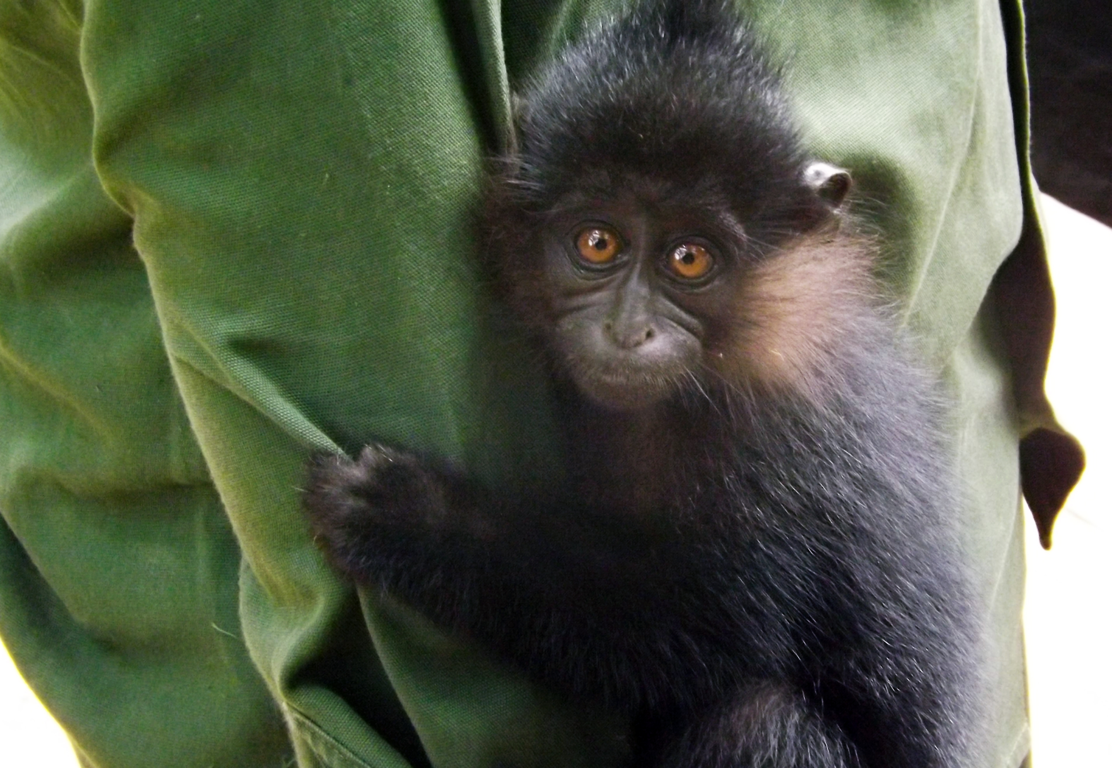 Infant black crested mangabey (Lophocebus aterrimus) pet which was seized by the wildlife authority in Democratic Republic of the Congo.